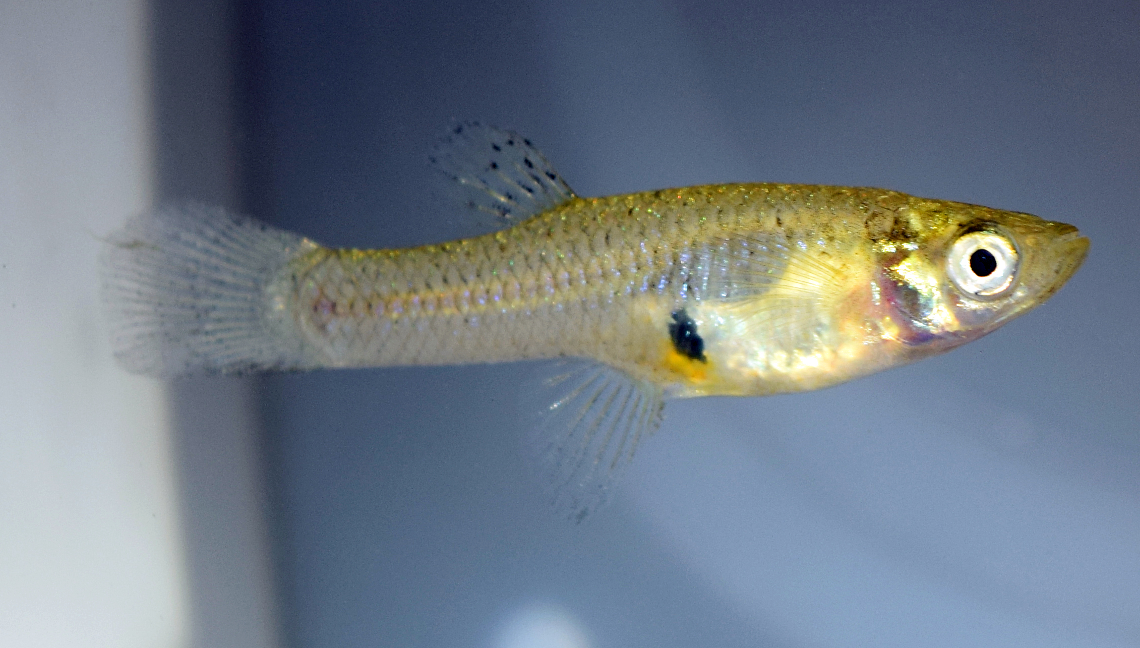 An adult female Gambusia affinis (western mosquitofish) at the University of Mississippi Field Station.